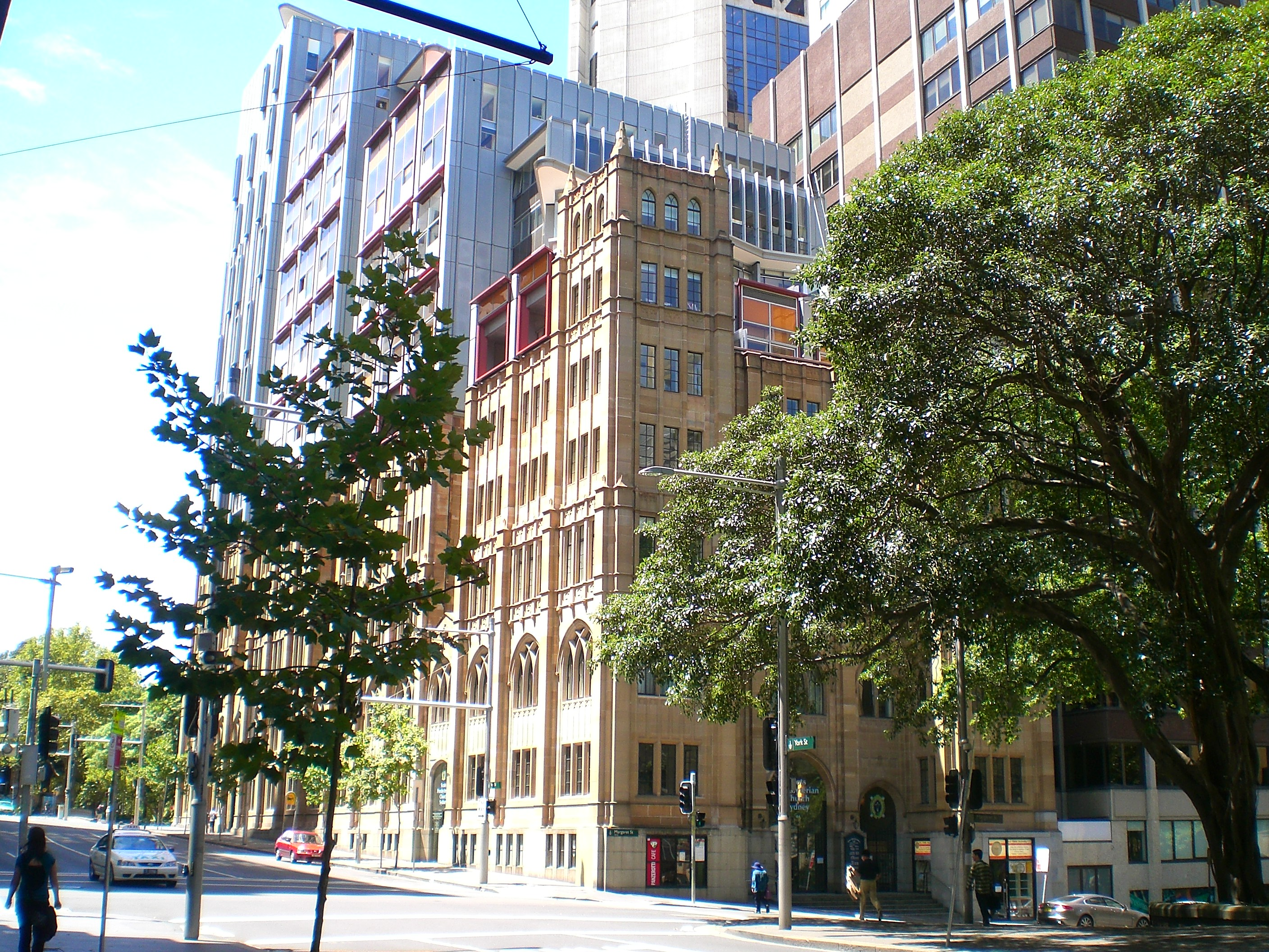 Scots Church, Sydney, in the Sydney central business district, New South Wales, Australia. Compare historic photograph here: This is as close as I could get to the original photographer's position.